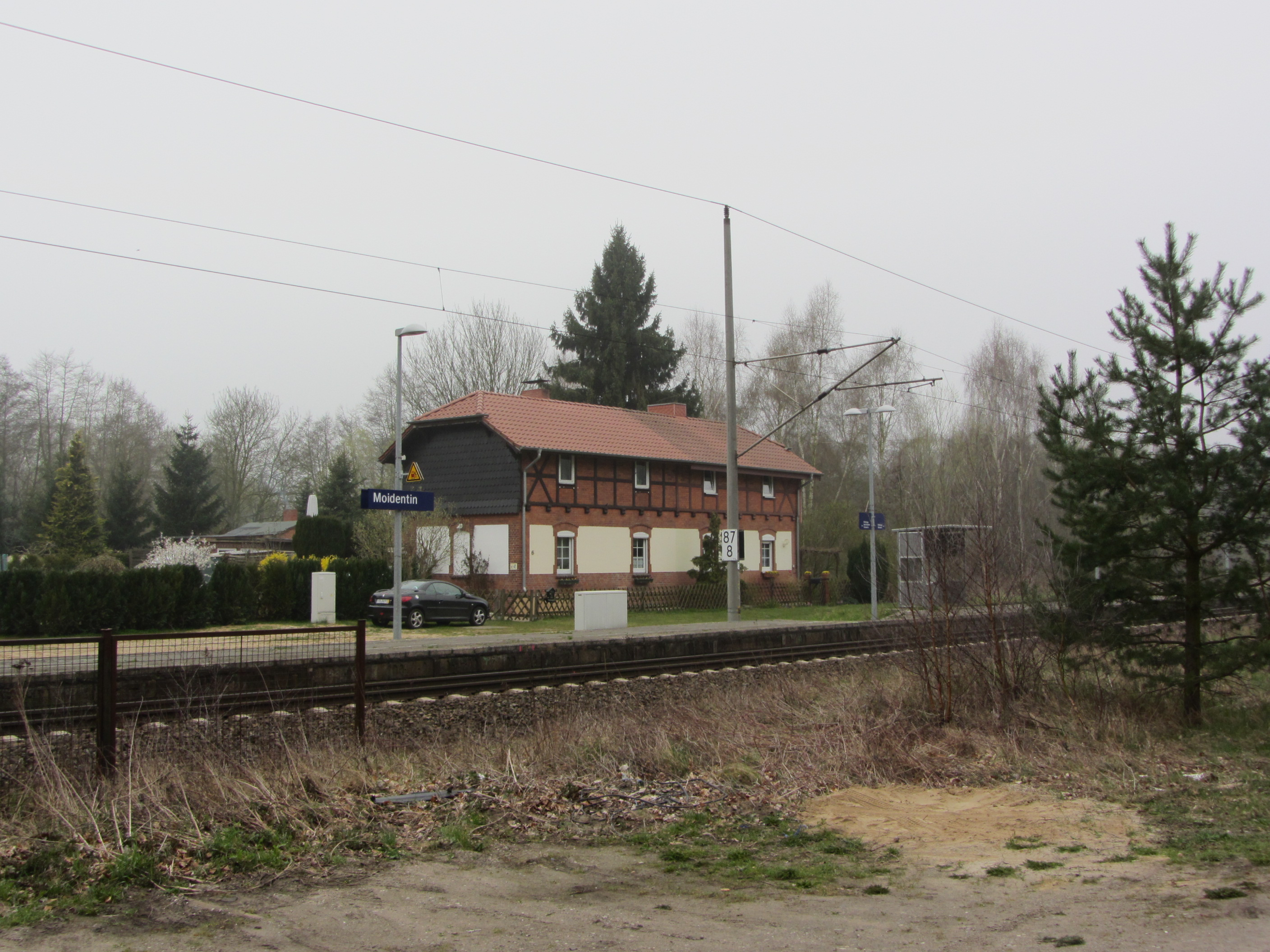 Train station near Moidentin, district Nordwestmecklenburg, Mecklenburg-Vorpommern, Germany